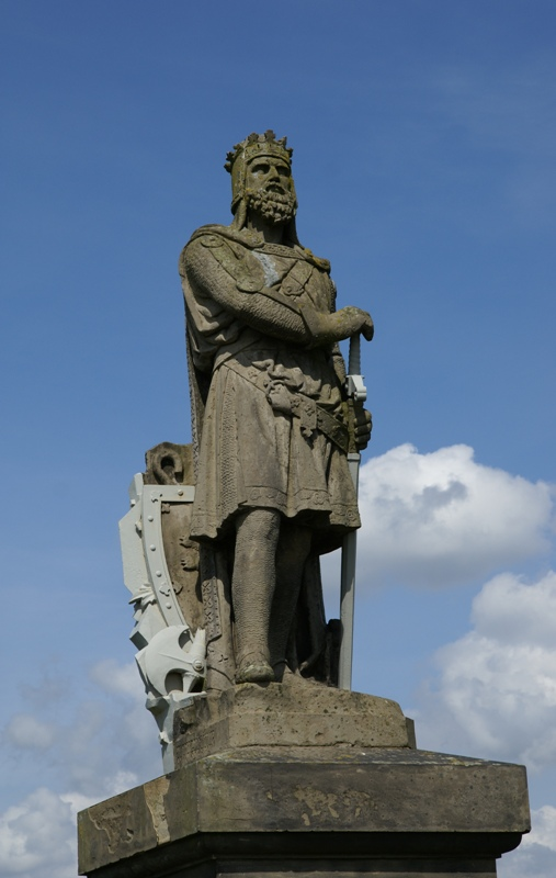 Stirling Castle, Stirling, Scotland - Robert the Bruce